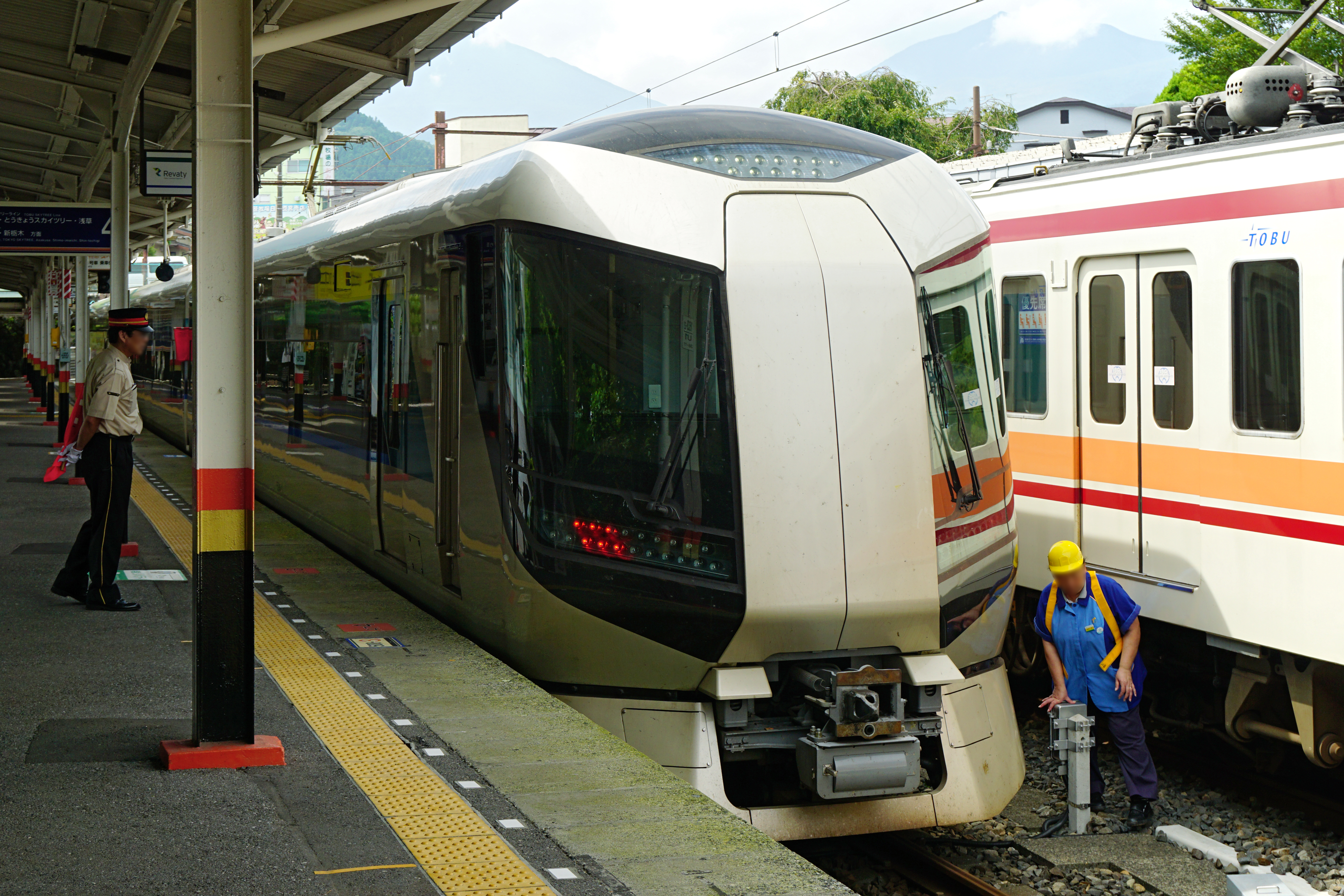 A Tobu 500 series EMU at Tōbu Nikkō Station in Nikko, Tochigi prefecture, Japan